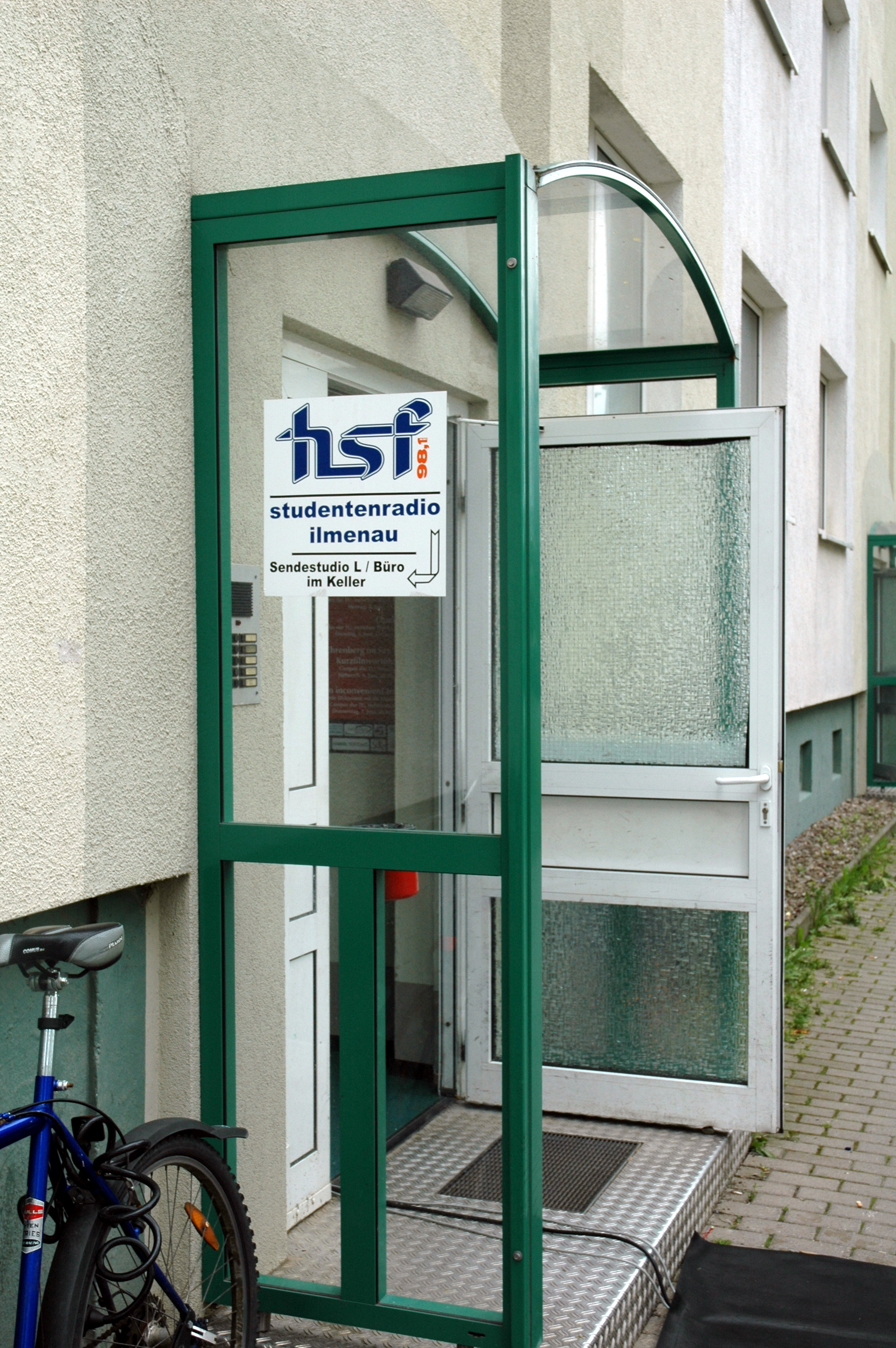 entrance to the studios of radio hsf, Ilmenau, Germany